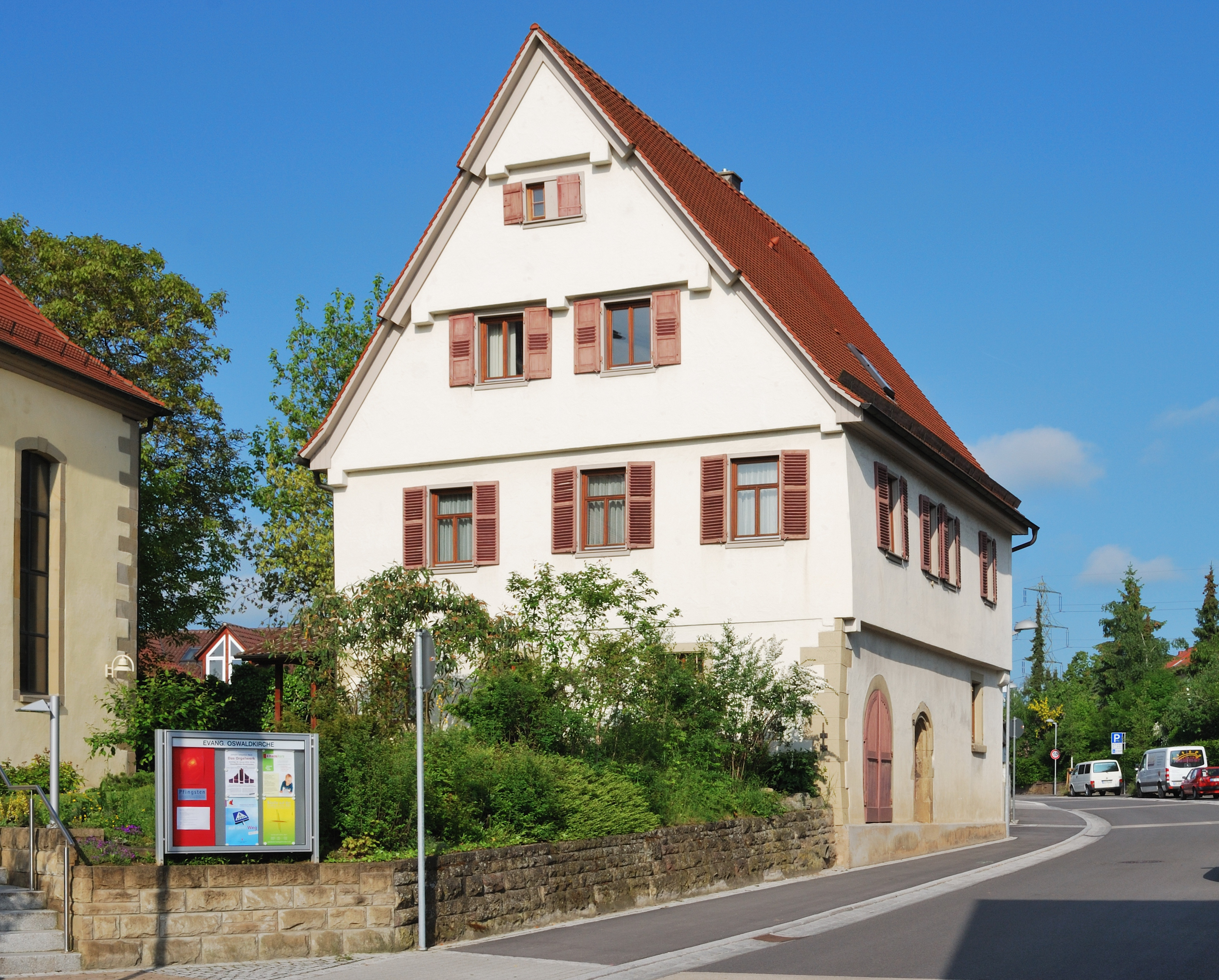 Old protestant vicarage in Hirschlanden in Southern Germany. The house originates from 1483 and 1823. It was renovated in 1992. The German ornitologist and explorer Theodor von Heuglin (1824-1876) was born in this house.